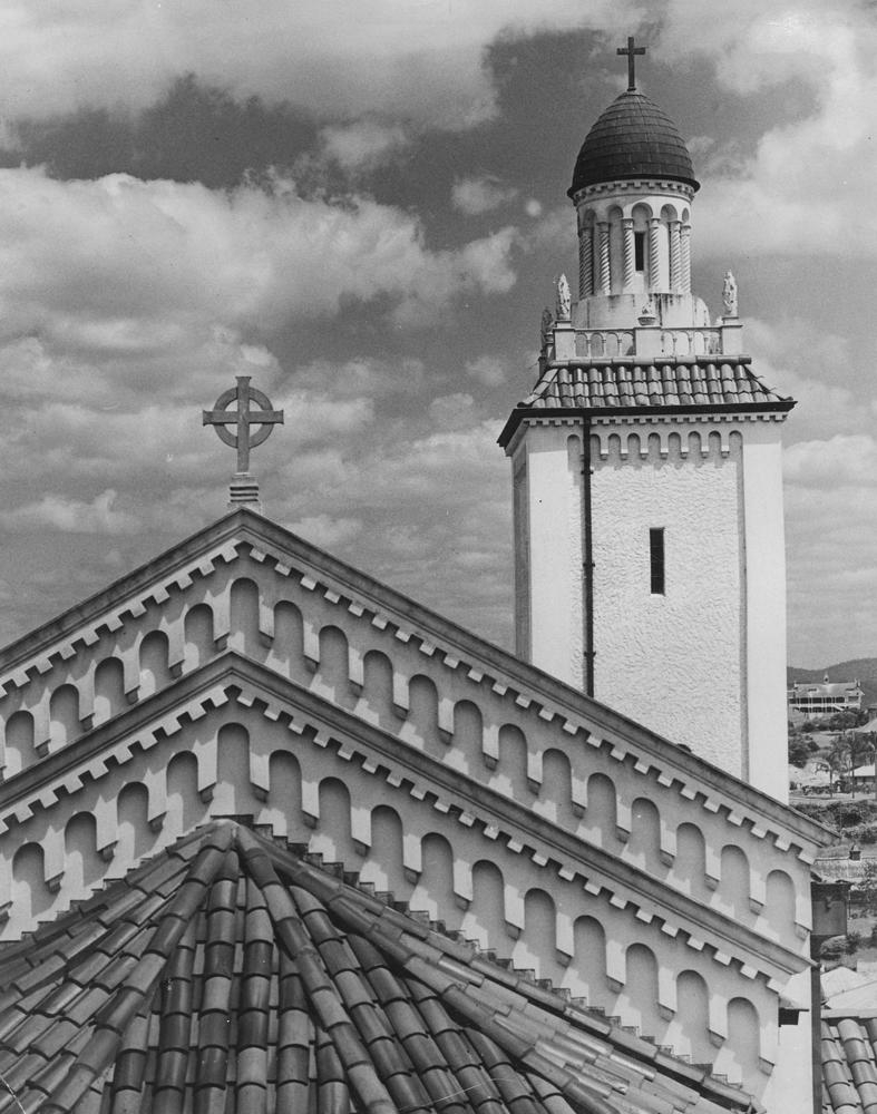 Photographer: Unidentified Location: Brisbane, Queensland, Australia Description: Close view of the roof tiles and fancy facias. The bell tower is prominent in the background. View this image at the State Library of Queensland: Information about State Library of Queensland’s collection